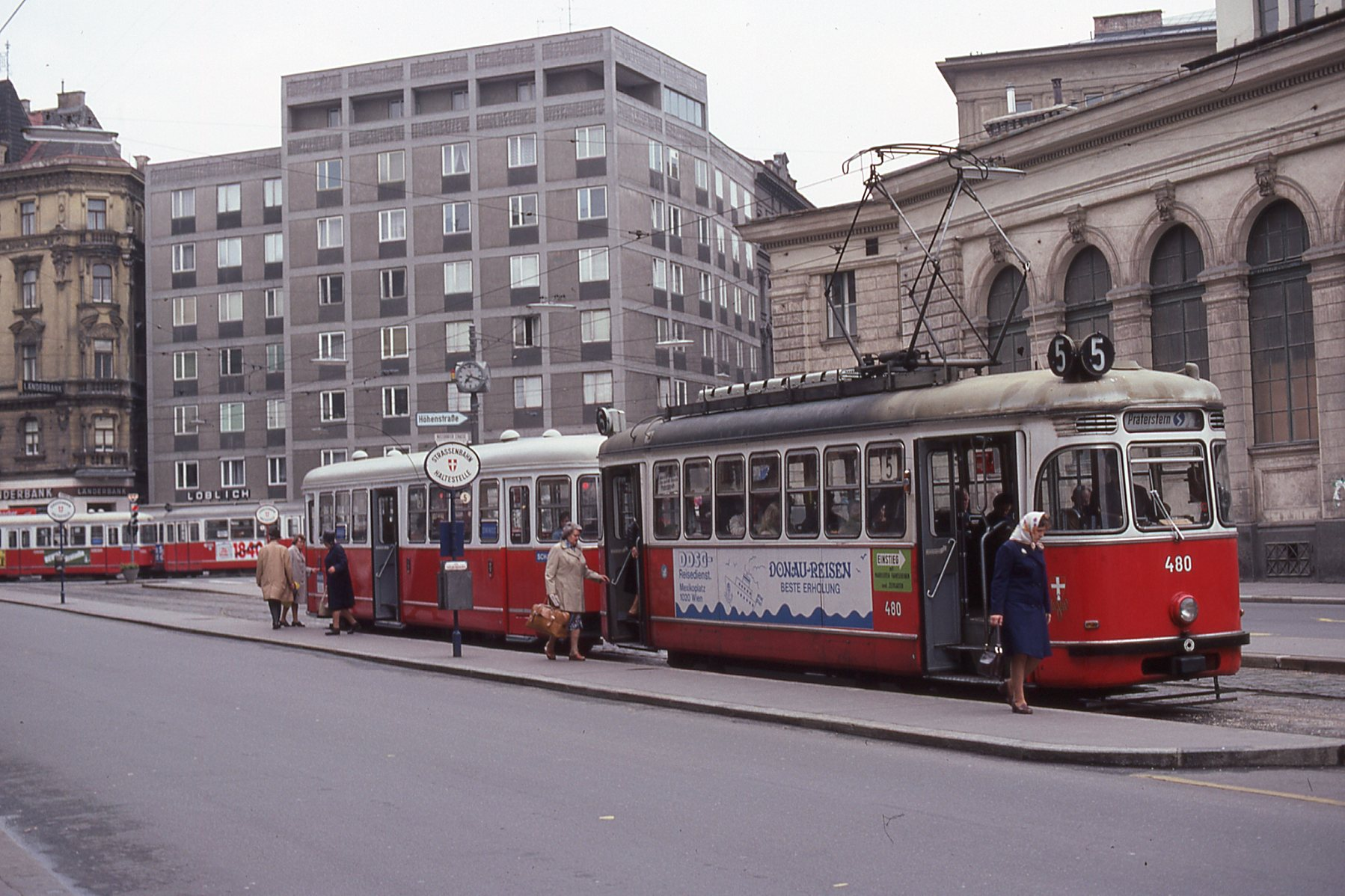 Vienna tram type L, car No. 480 on line 5 at the Markthalle Nußdorfer Straße.